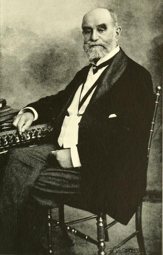 E. W. Blatchford (1826-1915, author and businessman)